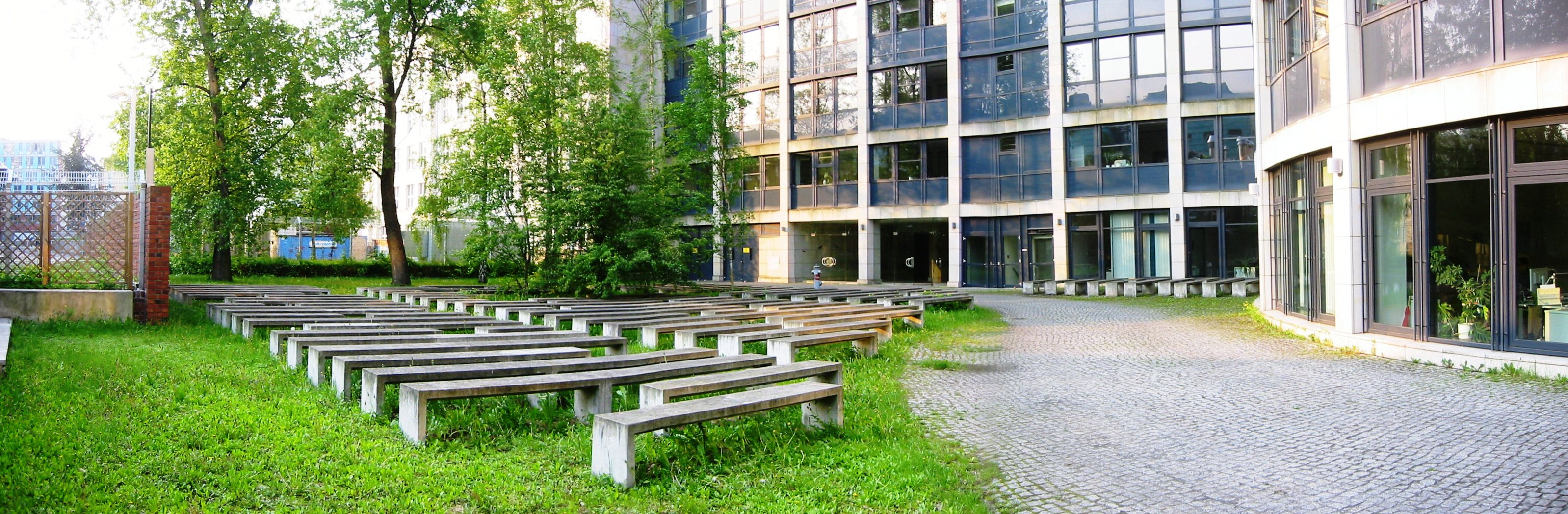 The memorial "Blatt" is a work of three Israeli artist Micha Ullman, Zvi Hecker and Eyal Weizman. It stands in a courtyard of the Barmer box office in the Axel-Springer-Strasse in Berlin's Kreuzberg district. It is a part of an eleven-part exhibition entitled "Art - City - Area" of the Berlin Galerie, which is on display in public spaces.